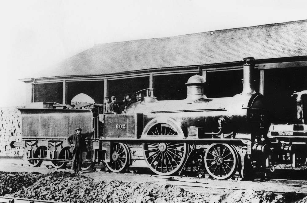 Photograph of LNWR engine No.602 Small Bloomer Class